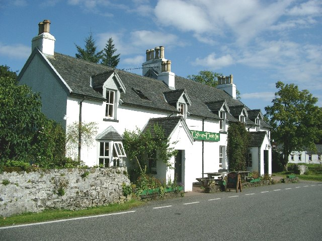 Tigh-an-Truish Inn. This Inn stands beside the "Bridge Over the Atlantic". After the rebellions of '15 and '45 islanders used to change out of their (banned) kilts here, into trews.